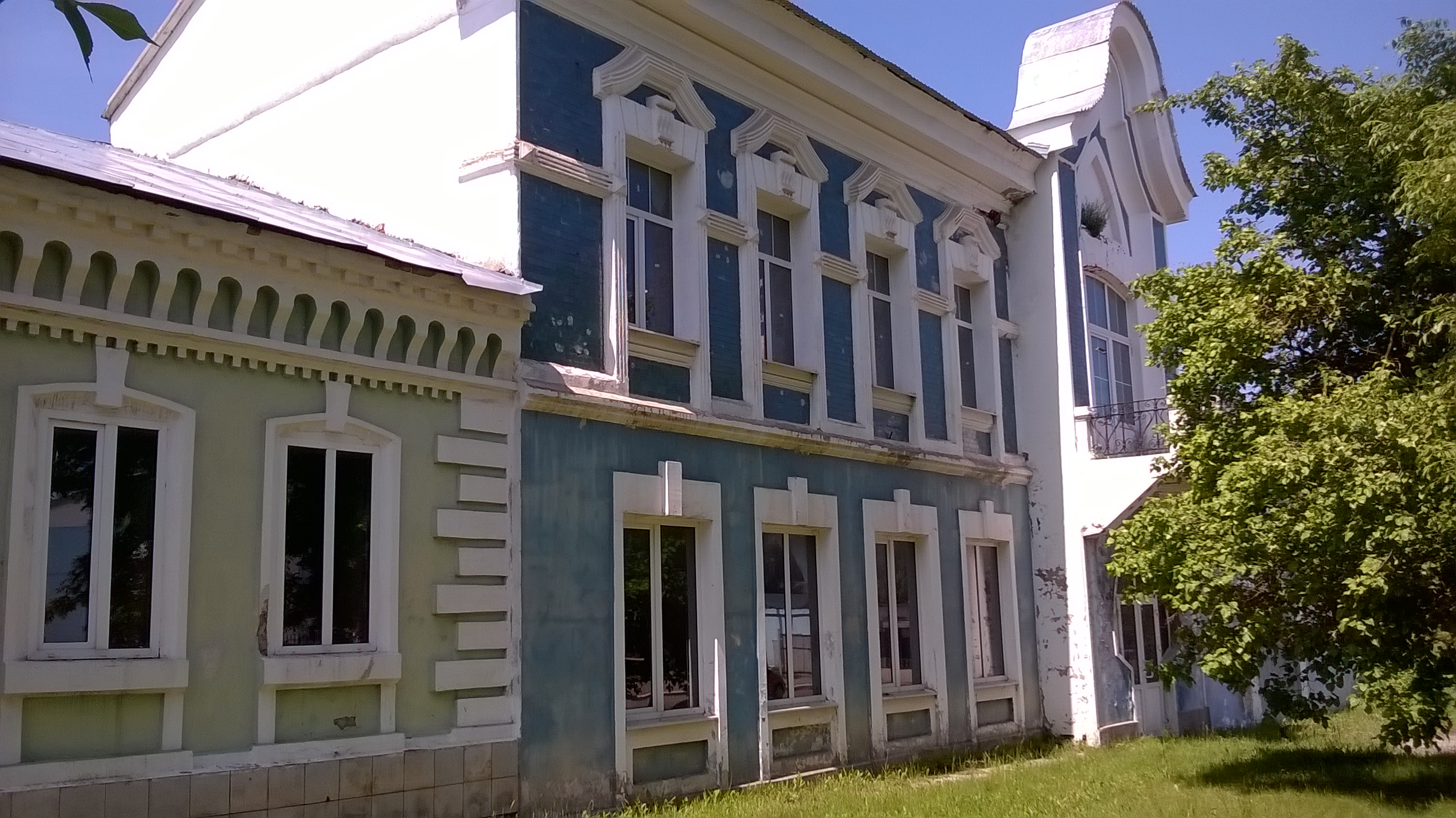 Дом купца Смоленова. Сухиничи. Фотография 8 июня 2020